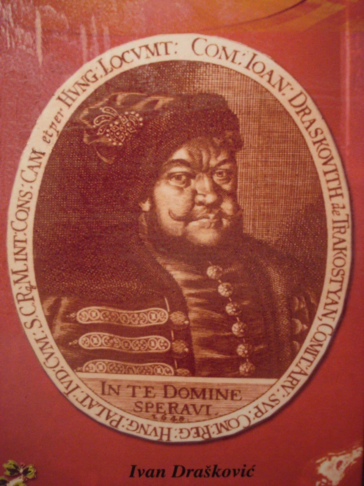 Count Ivan III Drašković (John III Drashkovich) of Trakoshtjan (1595/1603? - 1648), Ban (Viceroy) of Croatia and Count Palatine of Hungary